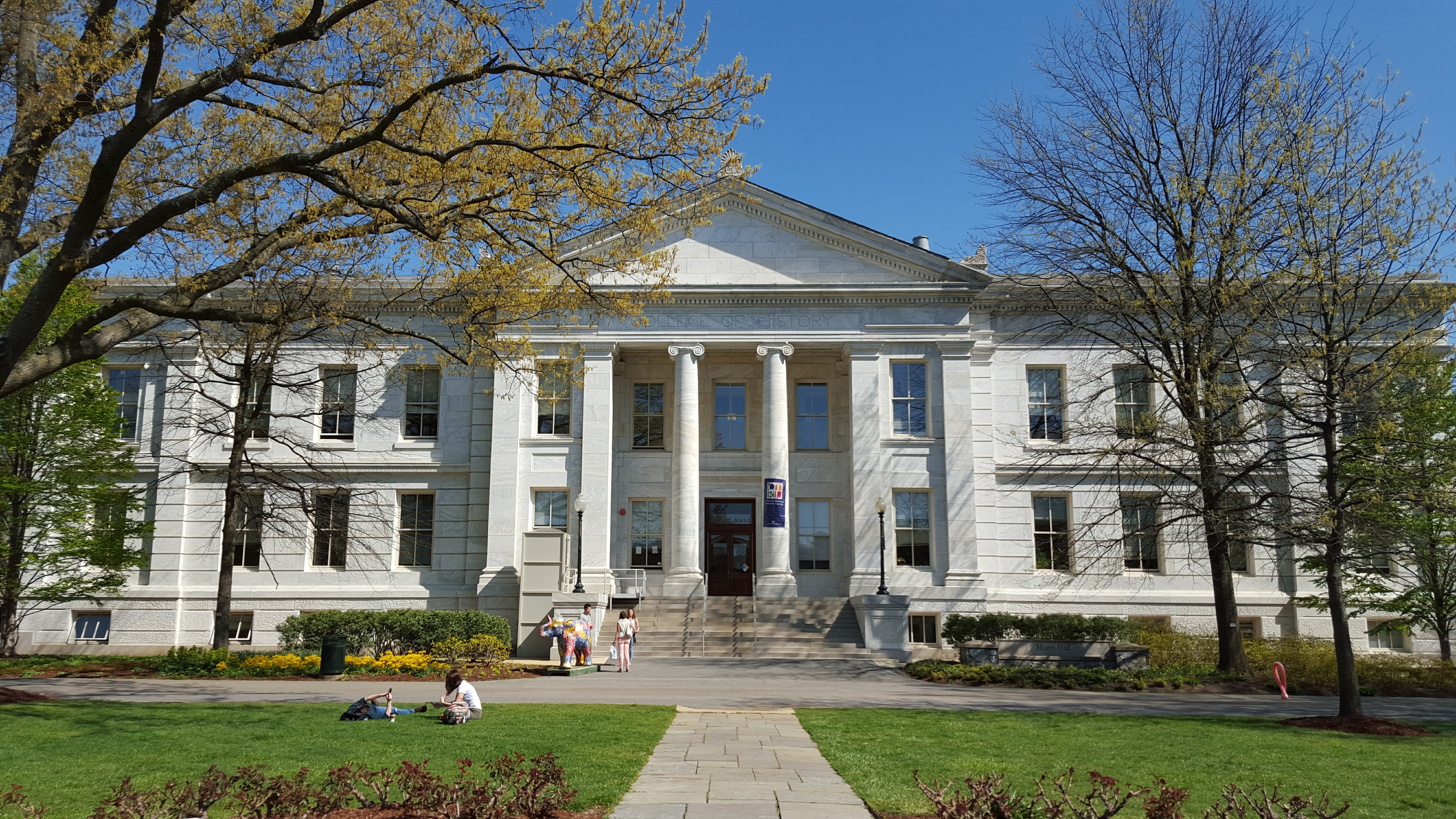 Hurst Hall